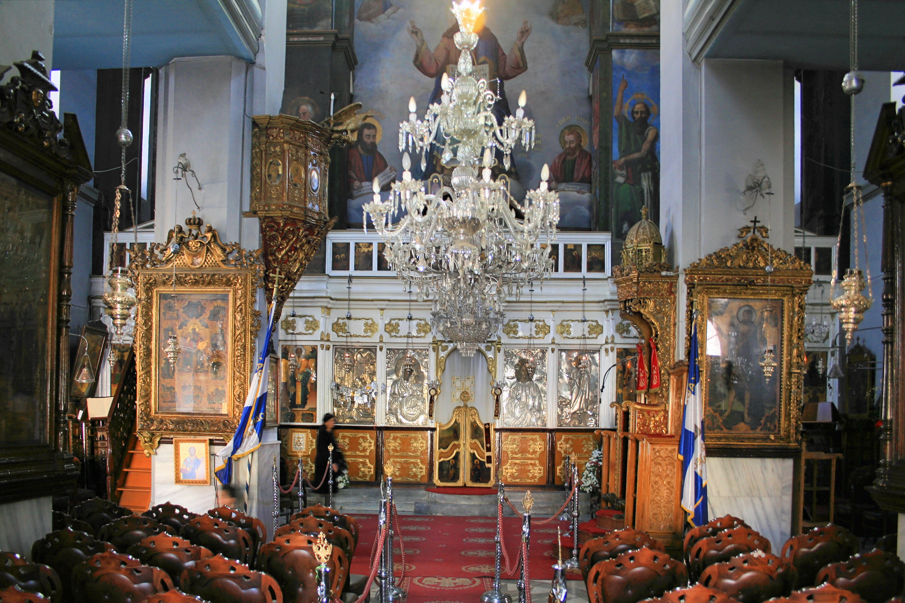 Chania on the island of Crete - The Greek Orthodox "Cathedral of the three martyrs" (inside view)